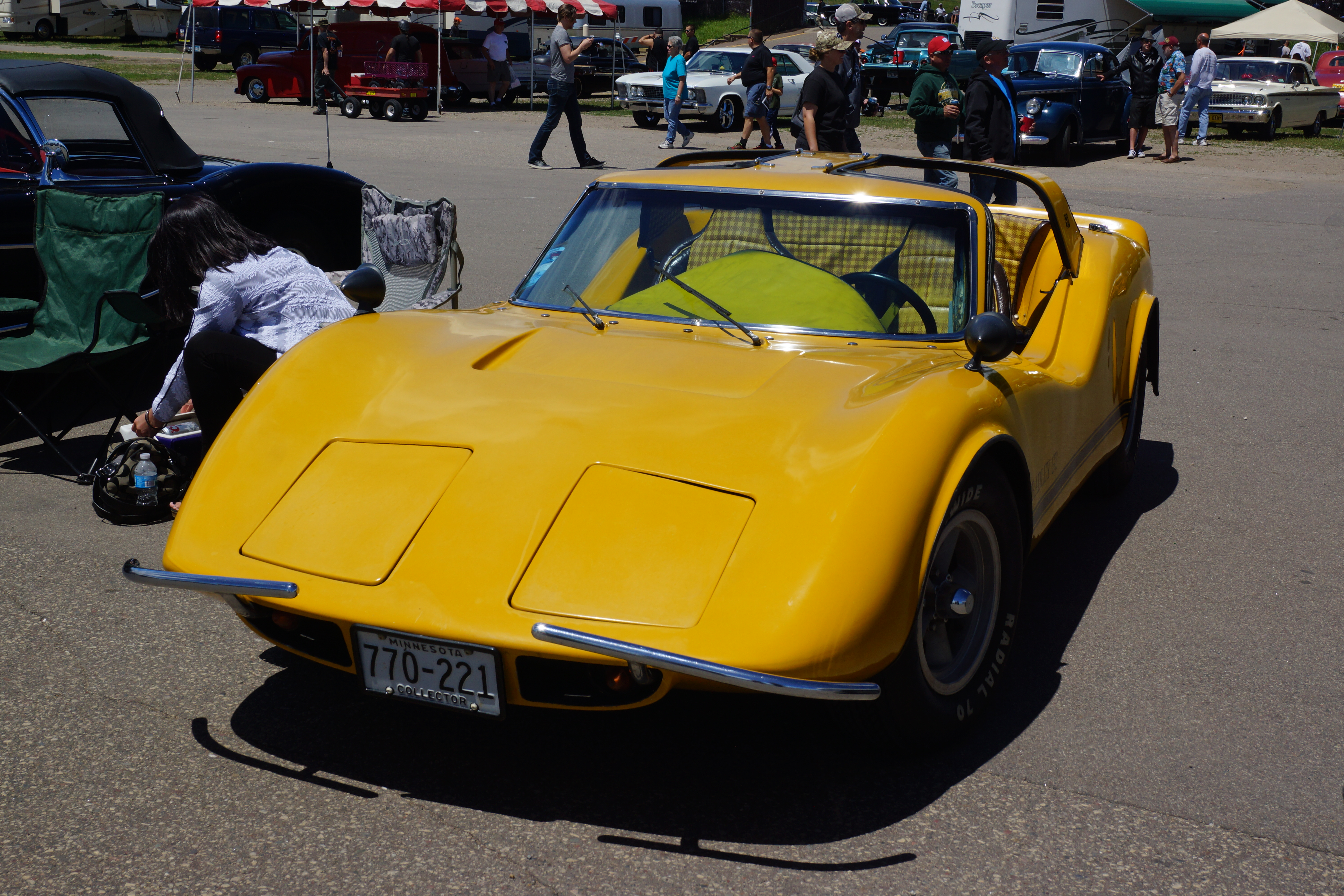 Yellow Bradley GT kit car, based on a 1962 Volkswagen